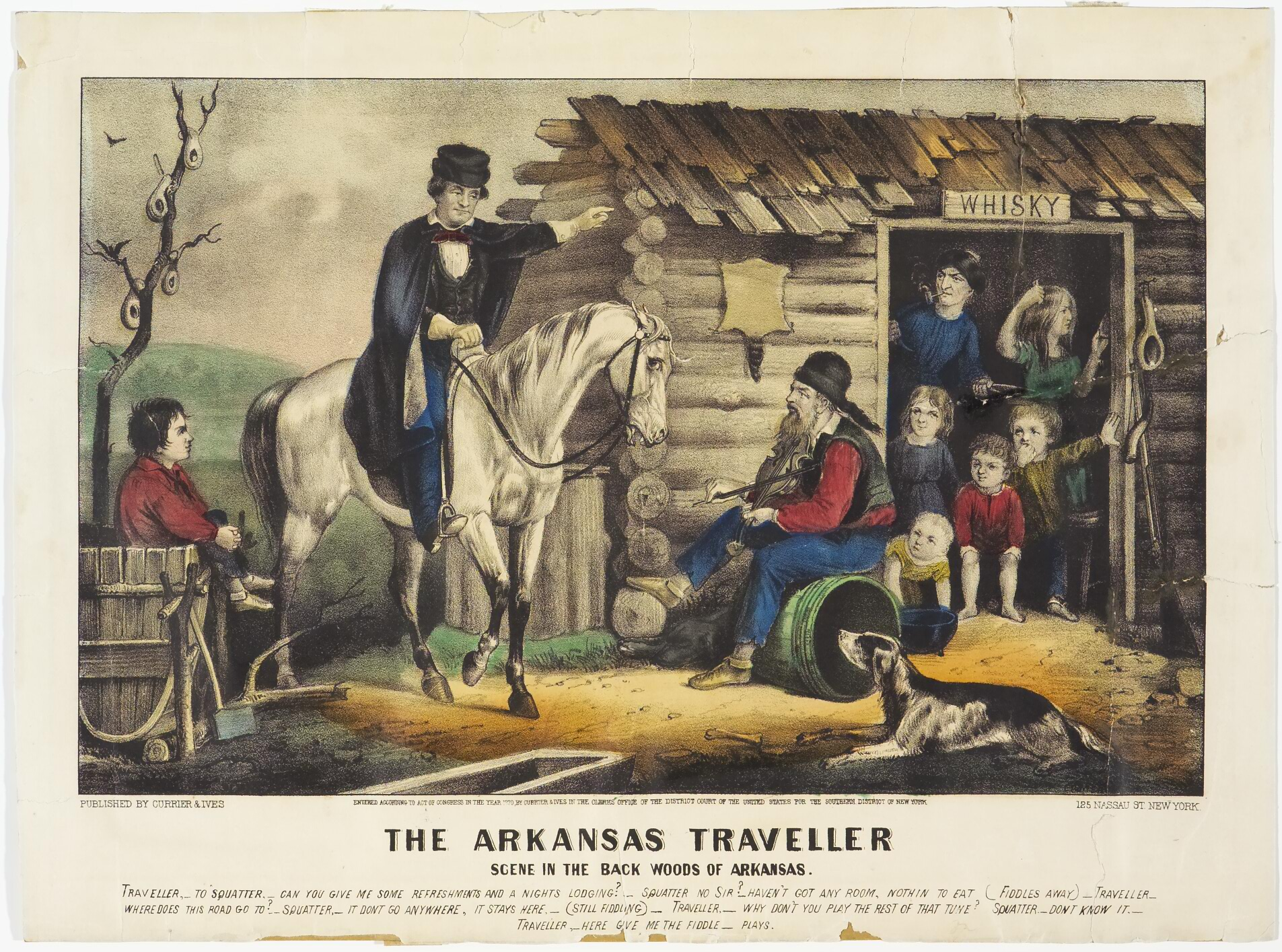 The Arkansas Traveler. Scene in the Back Woods of Arkansas. Original painting by Edward Washburn, c. 1858. This Lithography by Currier and Ives, 1870